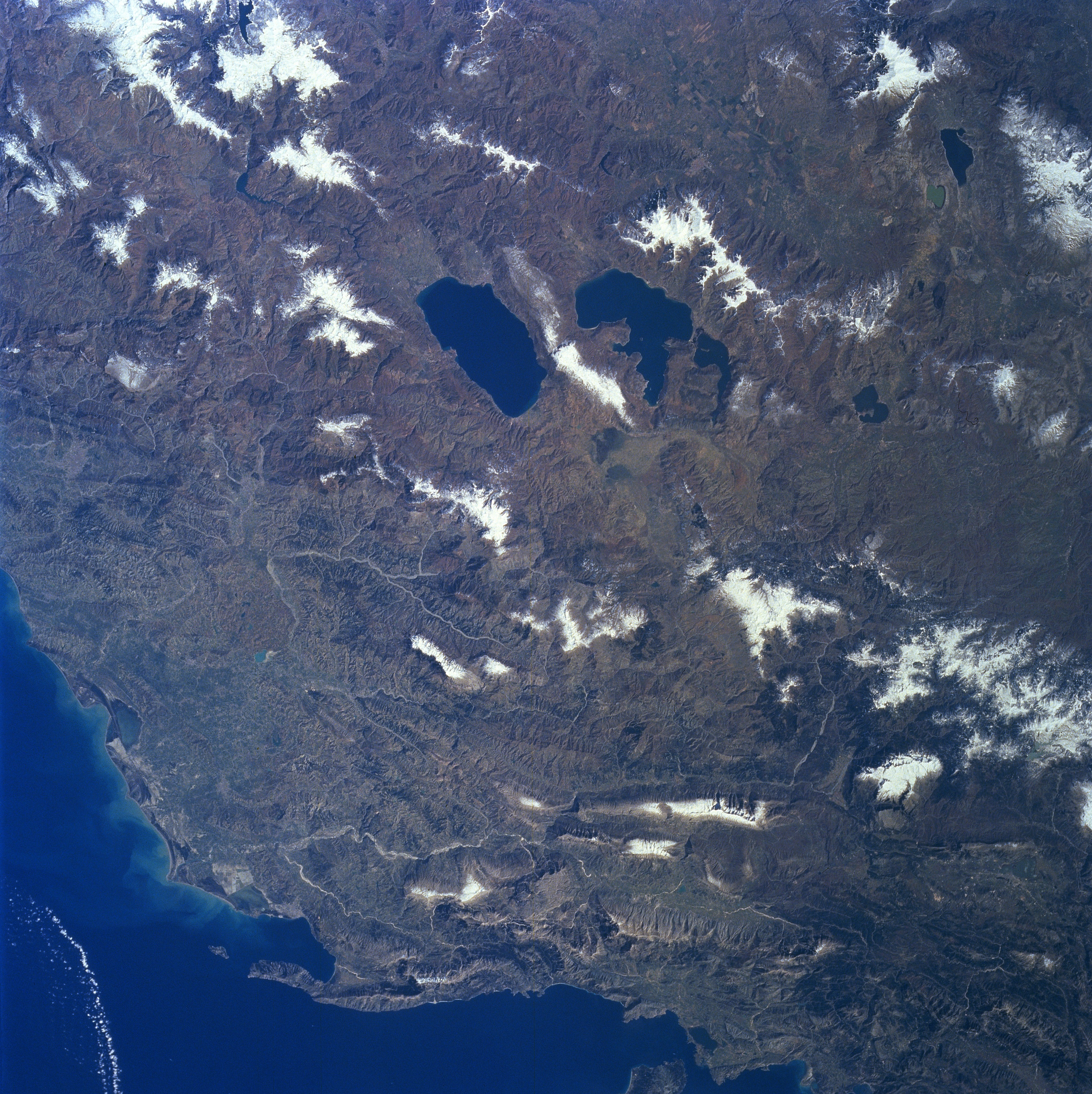 Mission: NM23 Roll: 707 Frame: 426 Mission ID on the Film or image: NM23 Country or Geographic Name: ALBANIA Features: LAKE OHRID Center Point Latitude: 40.5 Center Point Longitude: 20.5 (Negative numbers indicate south for latitude and west for longitude) Stereo: Yes (Yes indicates there is an adjacent picture of the same area) ONC Map ID: H-25 JNC Map ID: 47